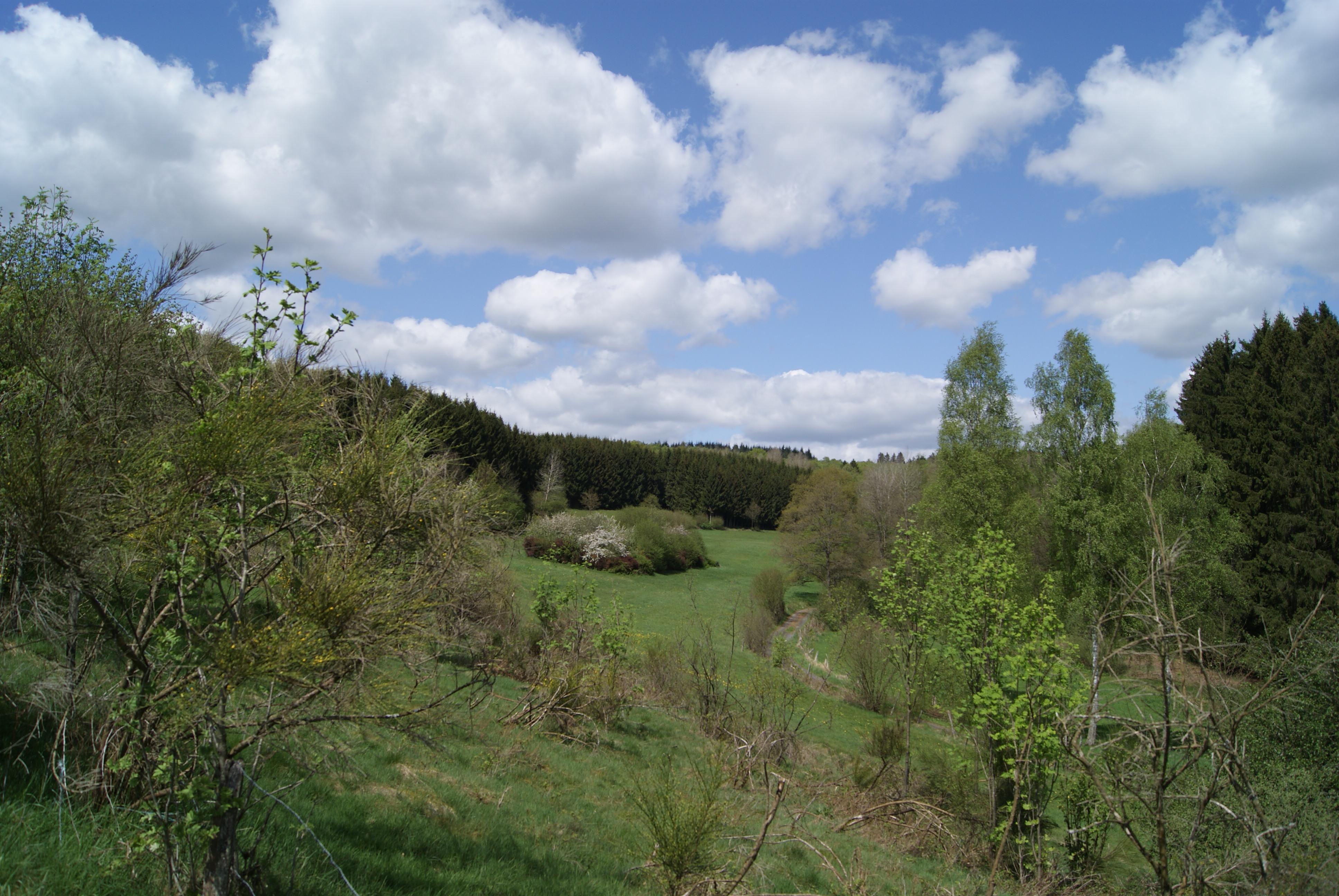 Nature preserve Rödersche, Germany. Nature reserves in Kreis Siegen-Wittgenstein.